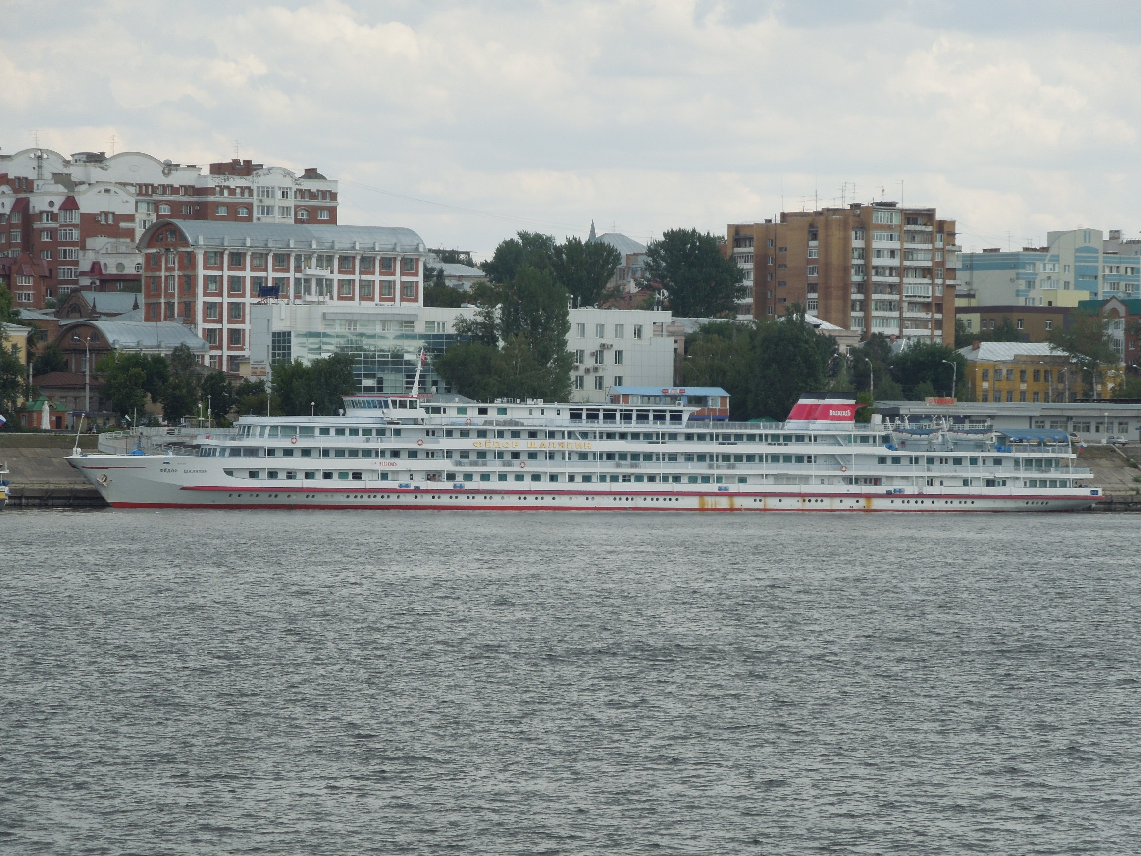 The passenger MS Fyodor Shalyapin of Project 92-016 class at the landing stage of Samara city